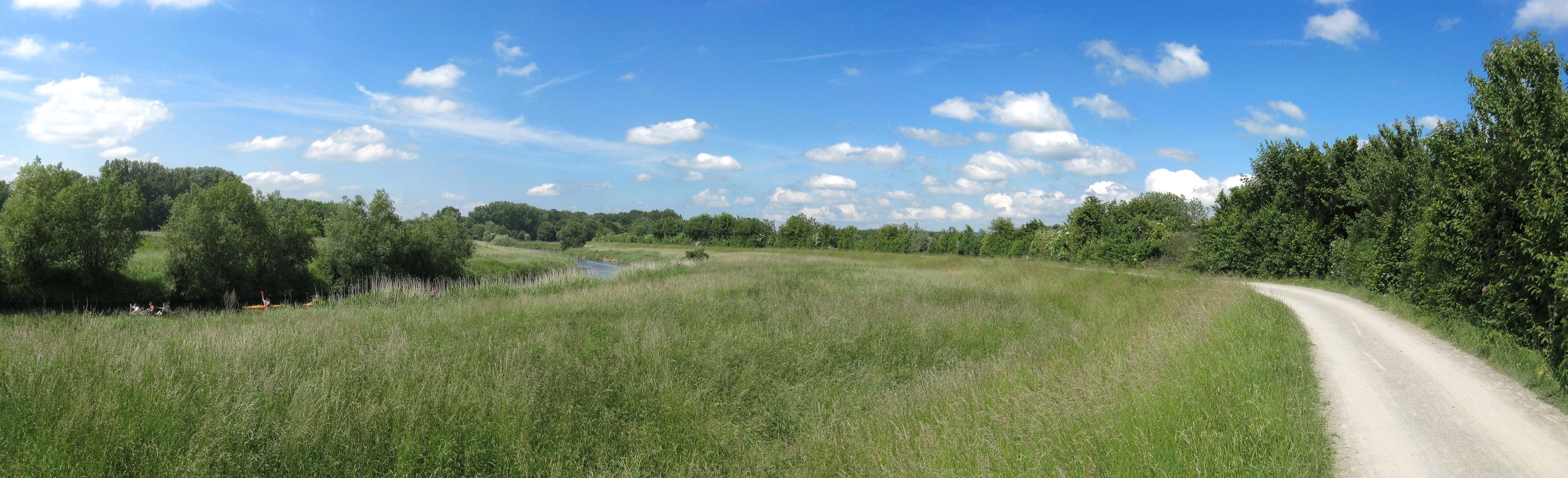 Course of the Else-Werre-Radweg between Bad Oeynhausen and Löhne